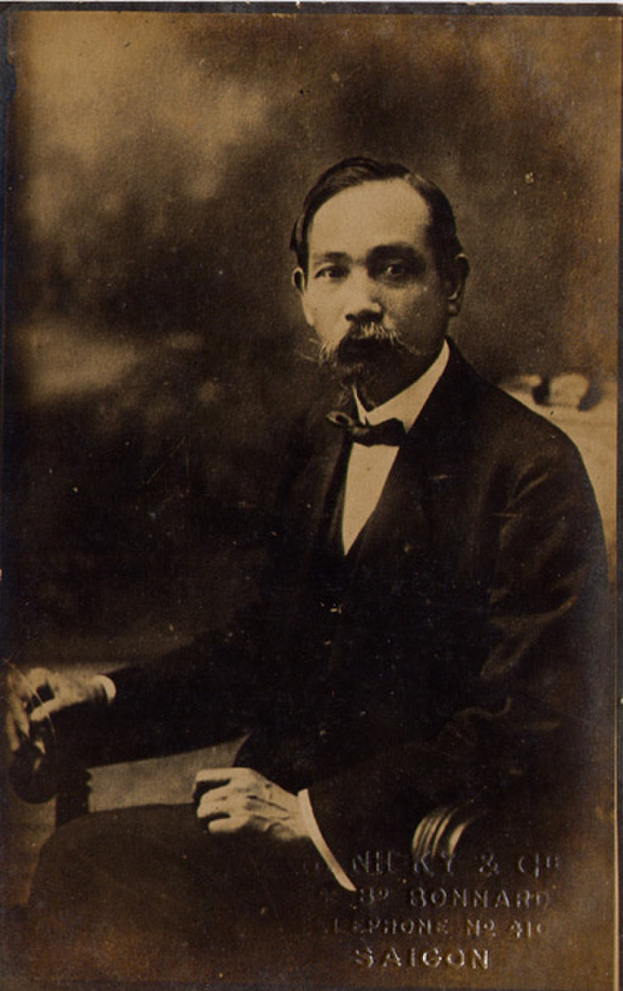 Portrait of Phan Chau Trinh, a Vietnamese revolutionist. This portrait has been published in Phan Tây Hồ Tiên sinh lịch sử, by Minh Viên Huỳnh Thúc Kháng, published by Anh Minh, Huế, 1959. [1]